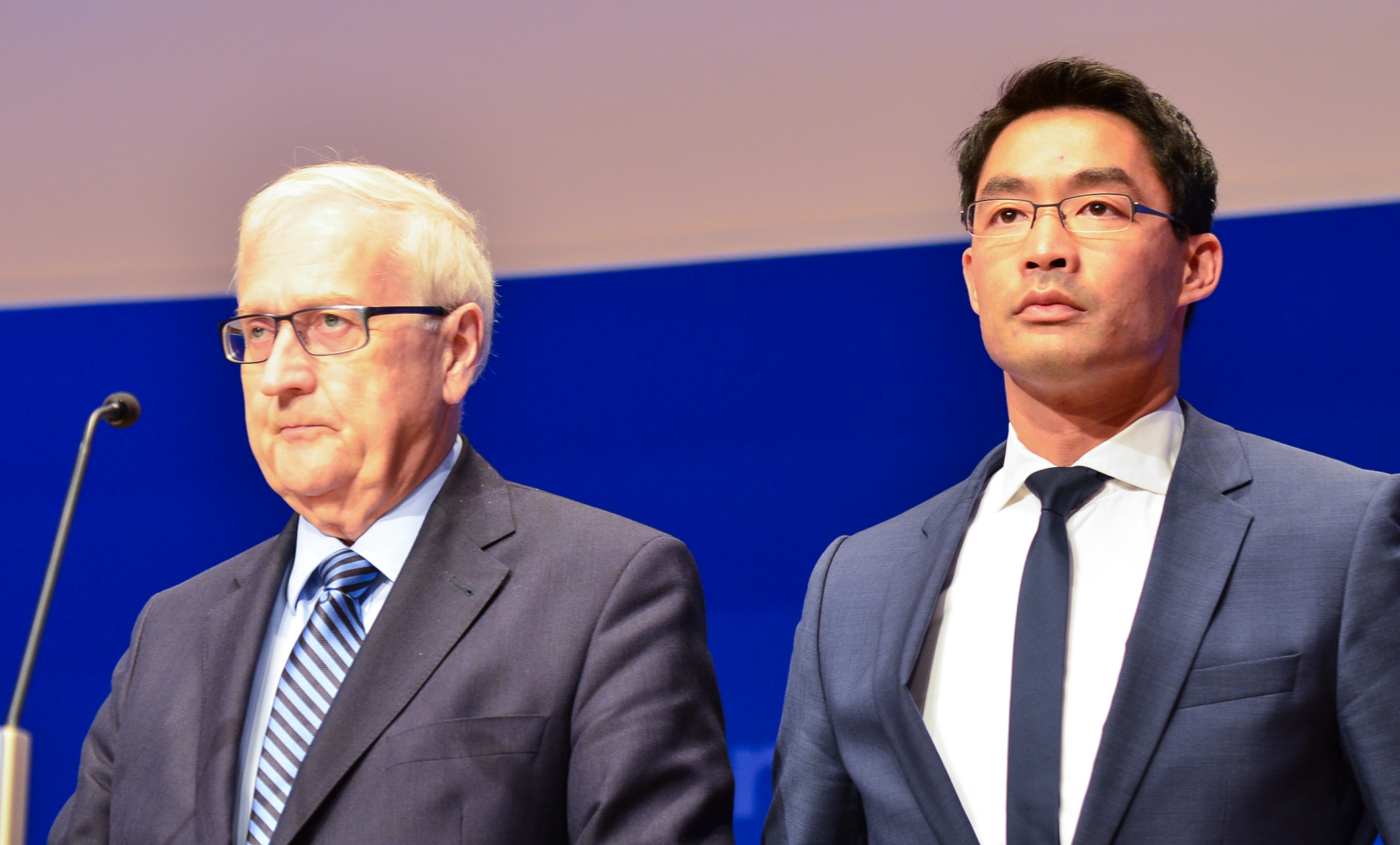 The federal election party FDP in Berlin Congress Center for the parliamentary election in 2013